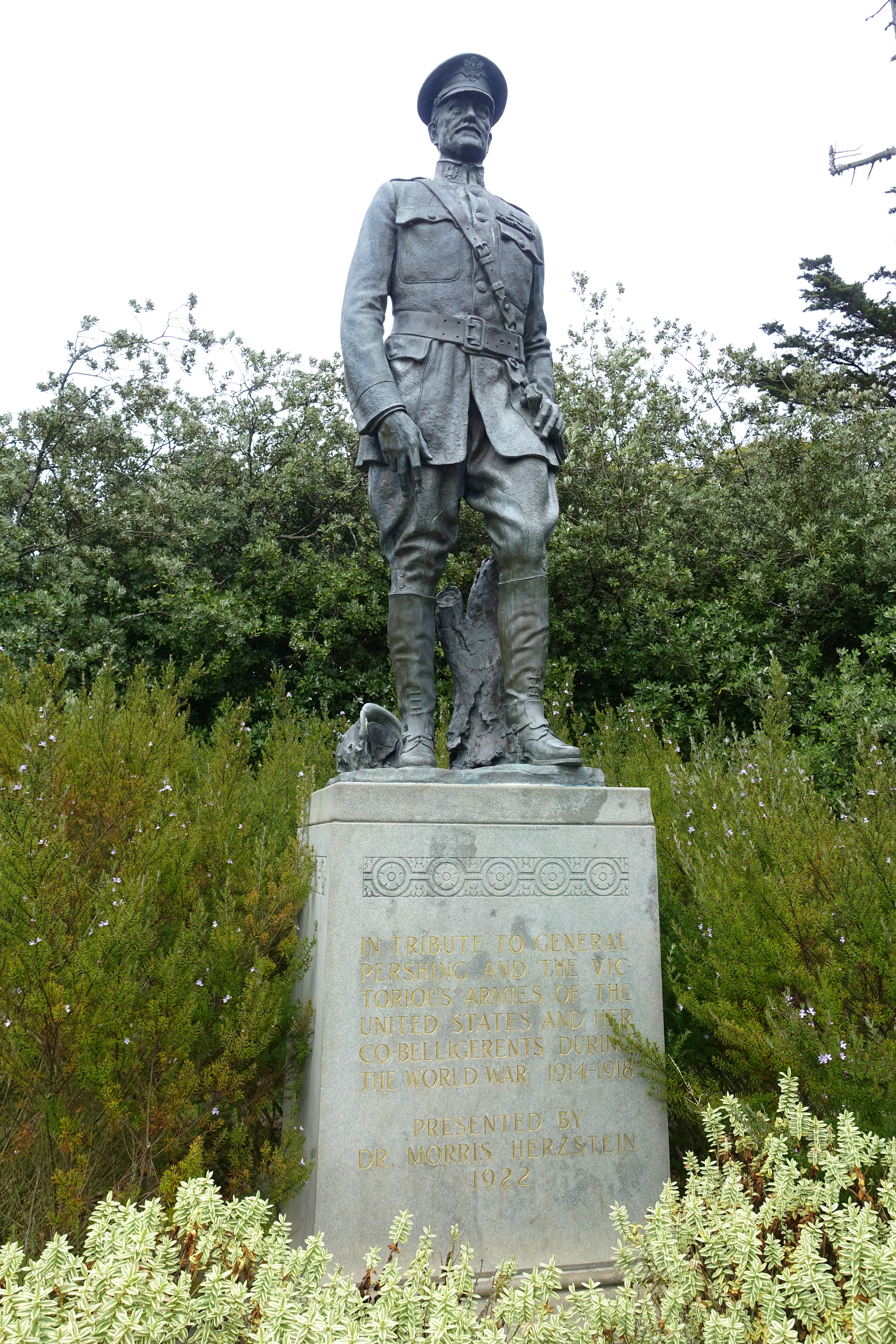 General John J. Pershing by Haig Patagian - Golden Gate Park, San Francisco, California, USA. Created in 1921, installed in 1922. This artwork is in the public domain because it was first published in the United States before 1923.